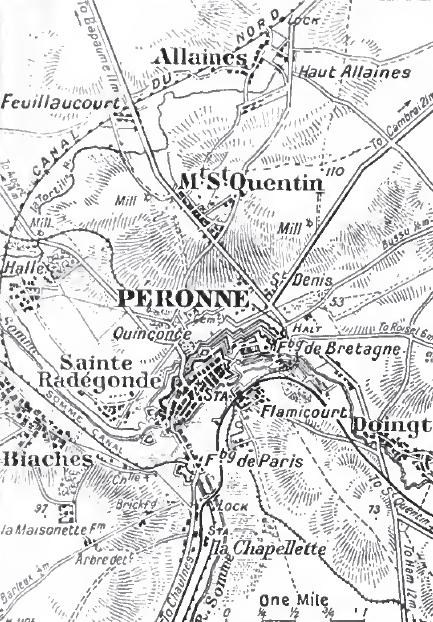 Mont St. Quentin, Peronne, 1916-1918